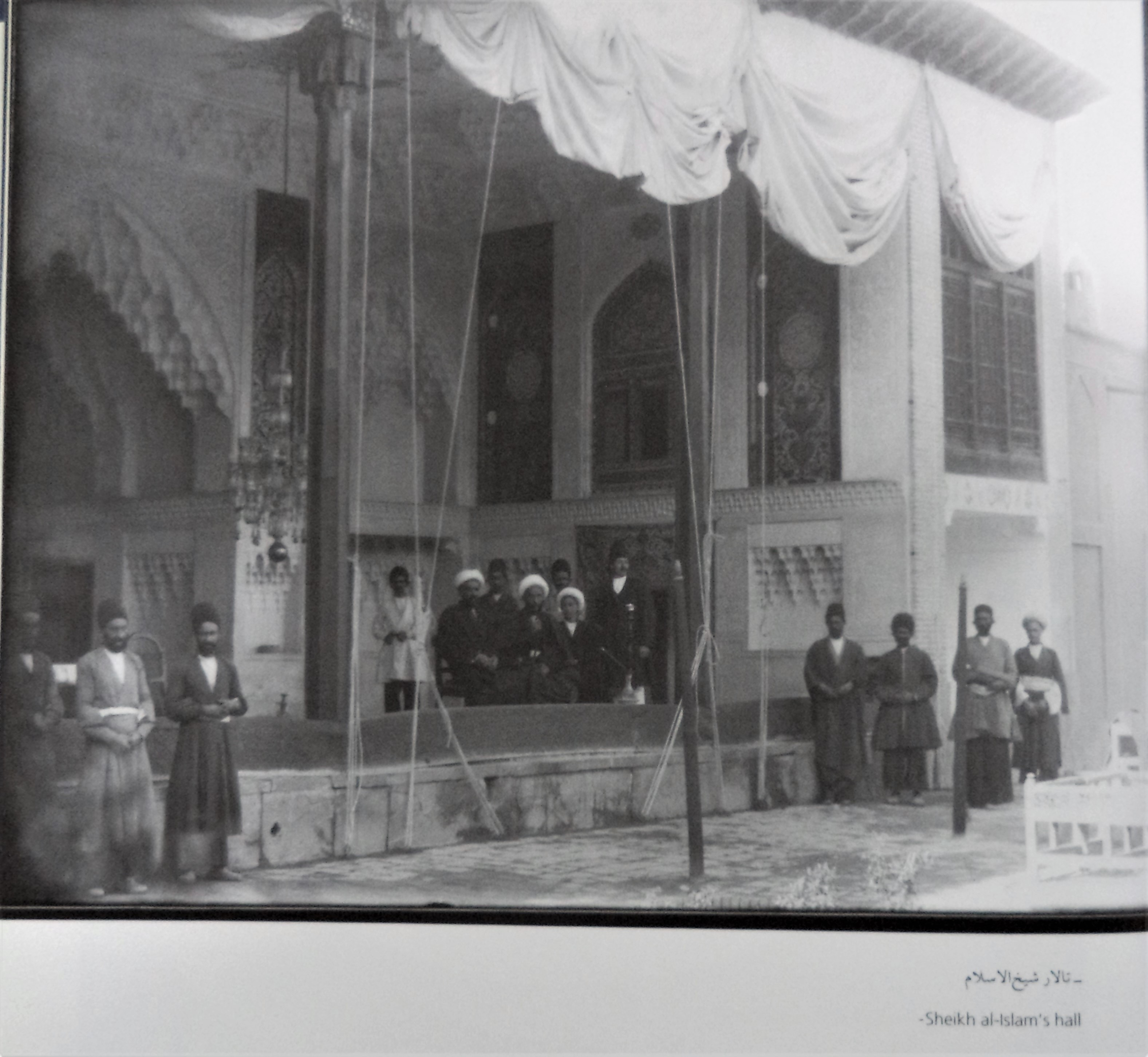 Sheikh al-Islam’s Hall: Photo of House of Mirza Mohammad Rahim 3rd , Sheikholeslam of Esfahan, taken by Ernest Hoeltzer in Isfahan around 1878